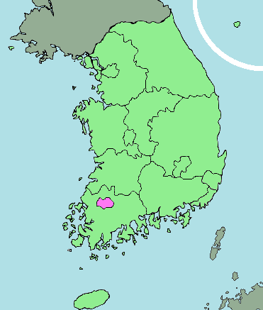 area map of Gwangju